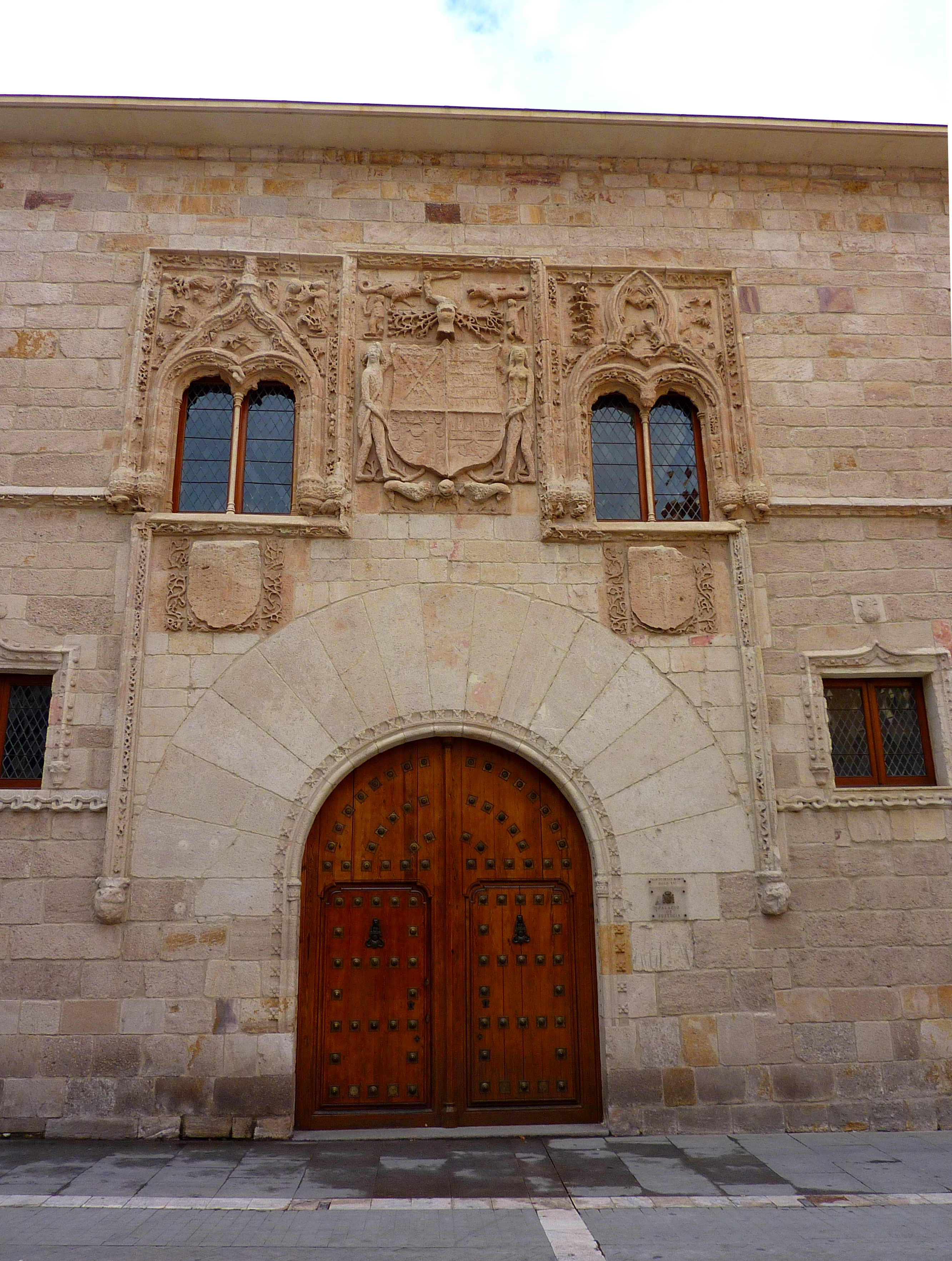 Momos Palace, Zamora, Spain.